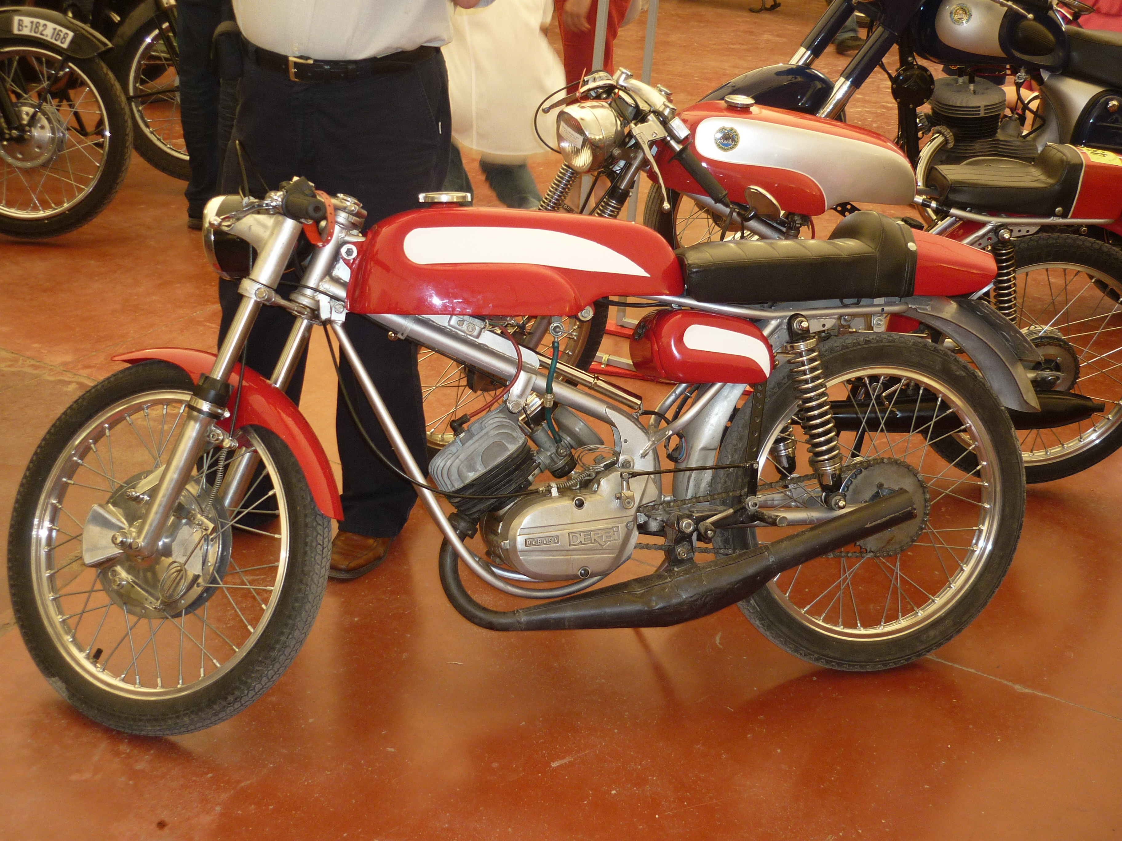 Derbi Sport 74cc (1968). Motorcycle meeting held on September 10, 2011 in Can Carrancà (near the Derbi factory in Martorelles, Catalonia).